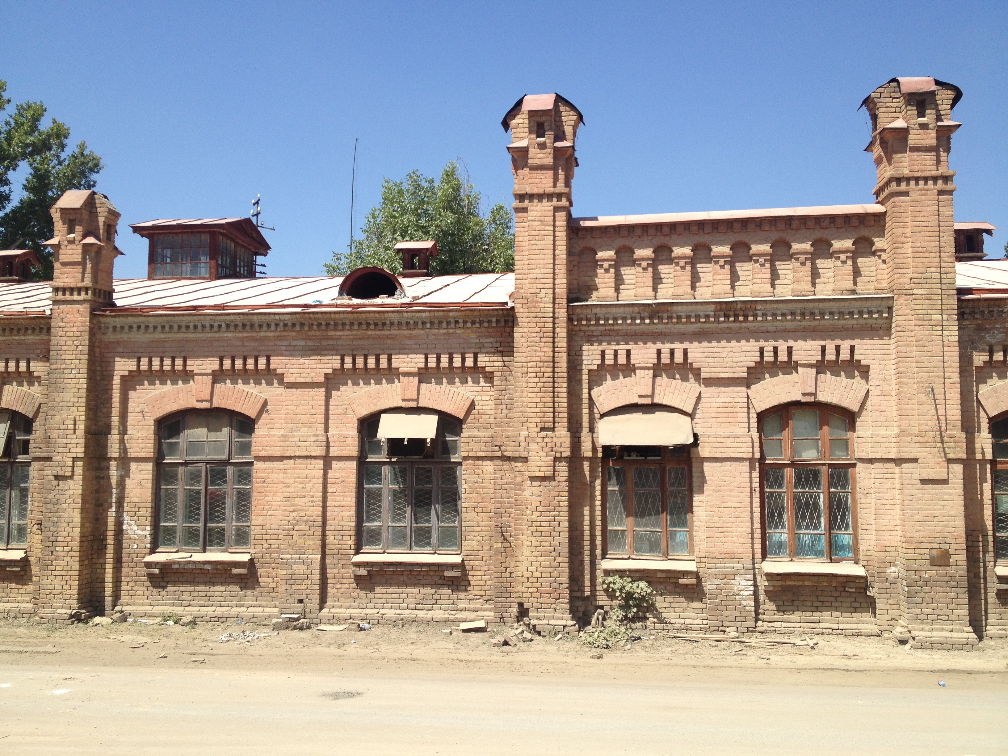 Wing of building of Kaufman orphanage (Institute of Power engineering and automatics in present) in Tashkent